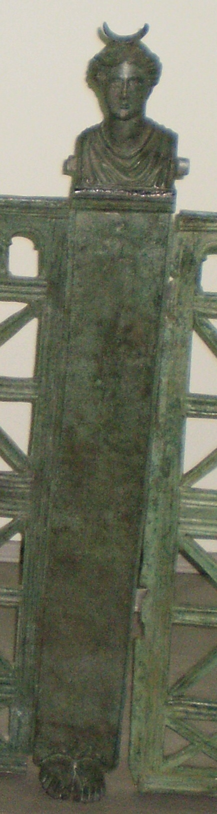 Bronze herm with bust of Luna from Mediana, Niš